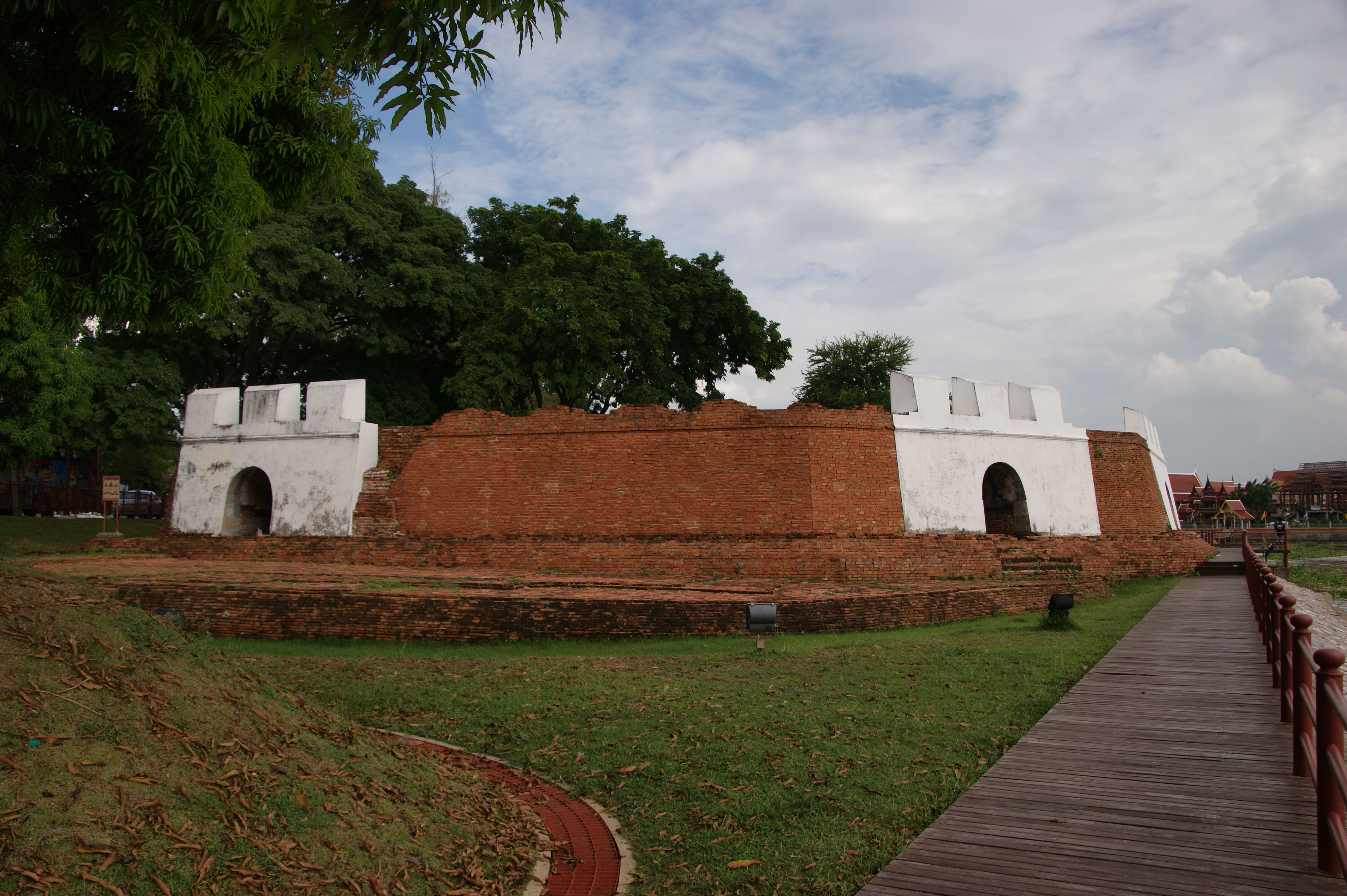 View of Pom Phet fortress, Ayutthaya, Thailand